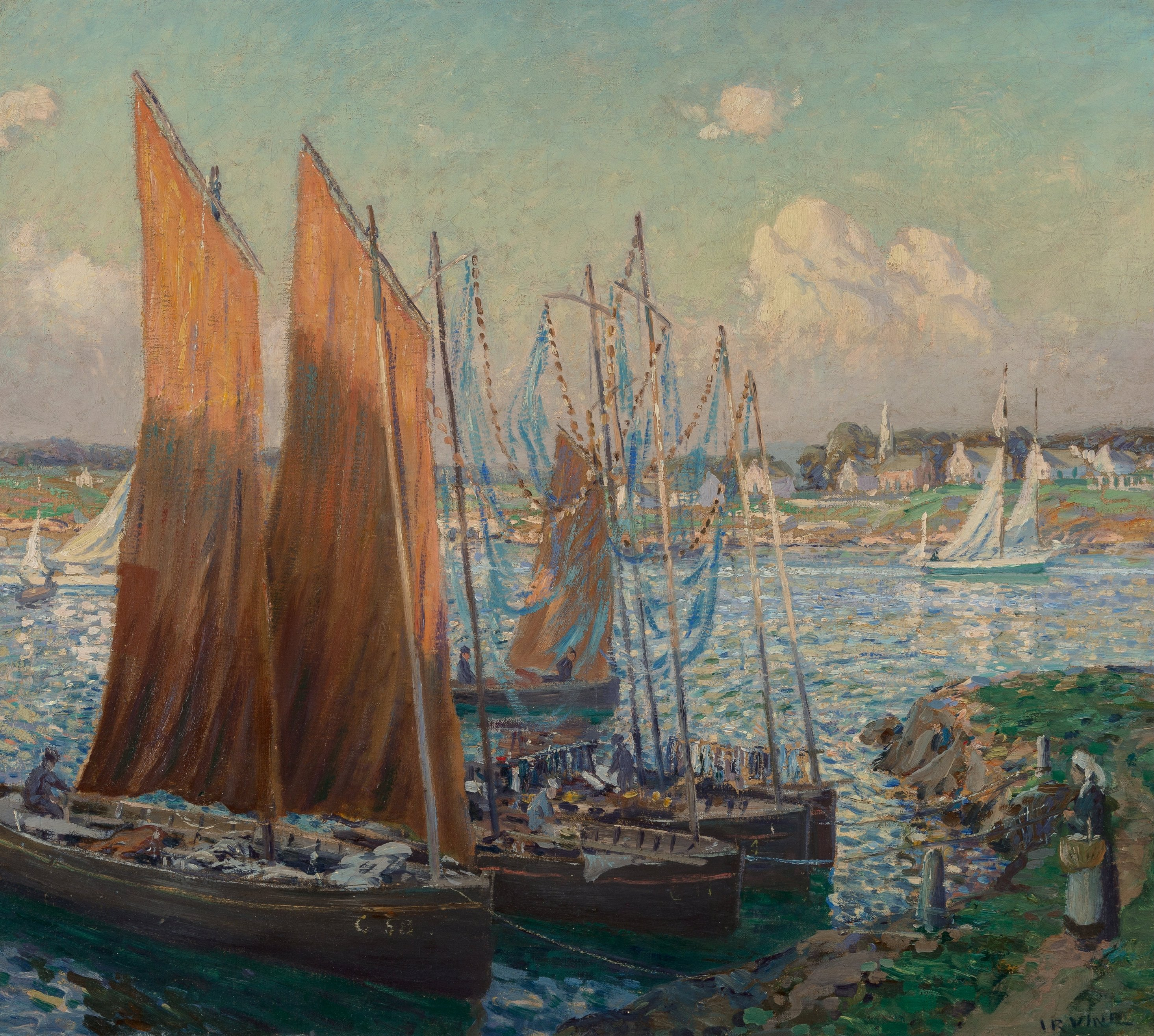 Summer Day at the Harbor by Wilson Henry Irvine, oil on canvas, 24 x 27 inches (61.0 x 68.6 cm)